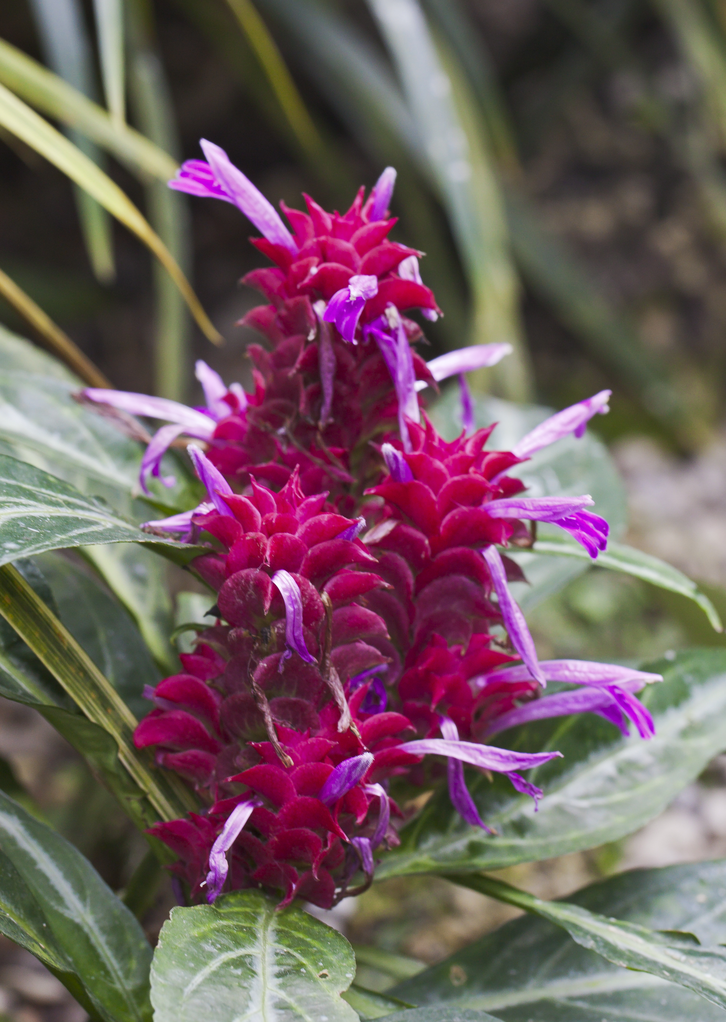 Justicia scheidweileri, Munich Botanic Garden, Germany